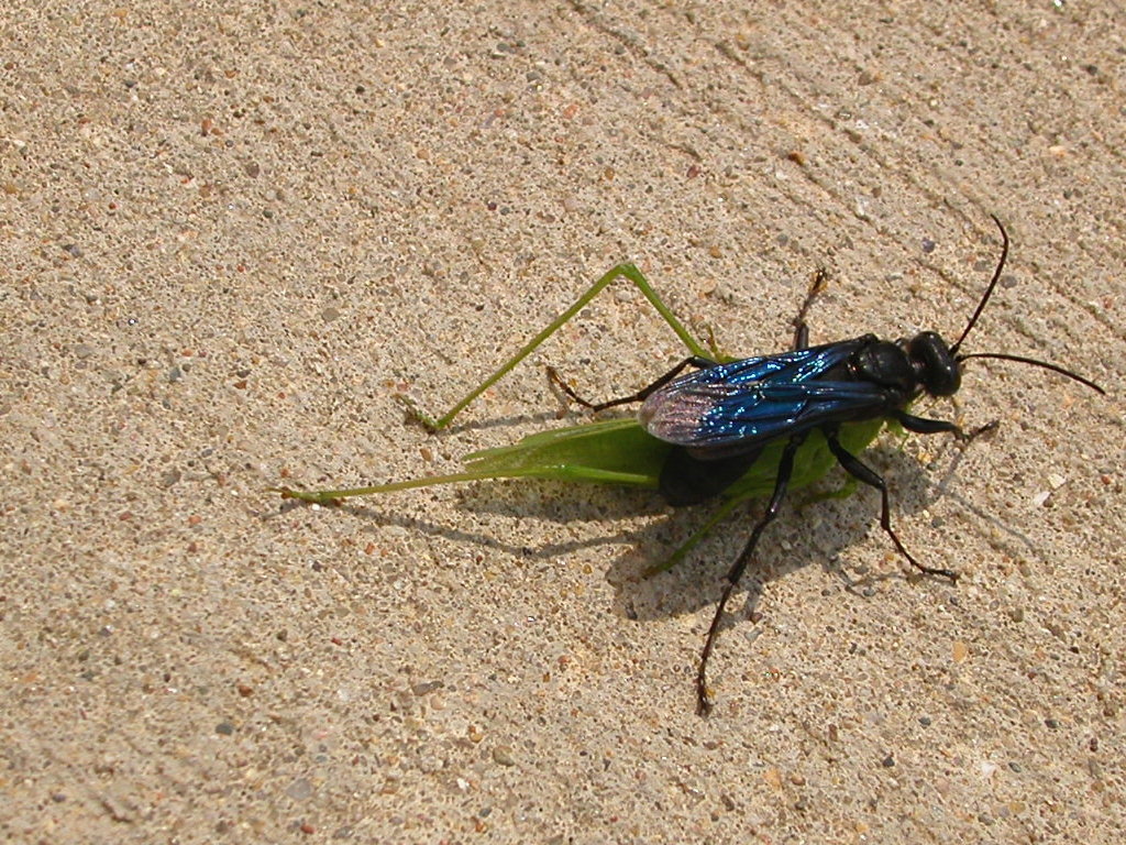 Sphex pensylvanicus a.k.a. The Great Black Wasp Location: Dodge Center, Minnesota, USA